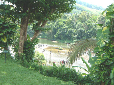 Kitulgala, my photo